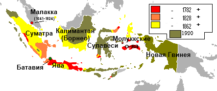 Dutch Expansion in the East Indies (in Russian)